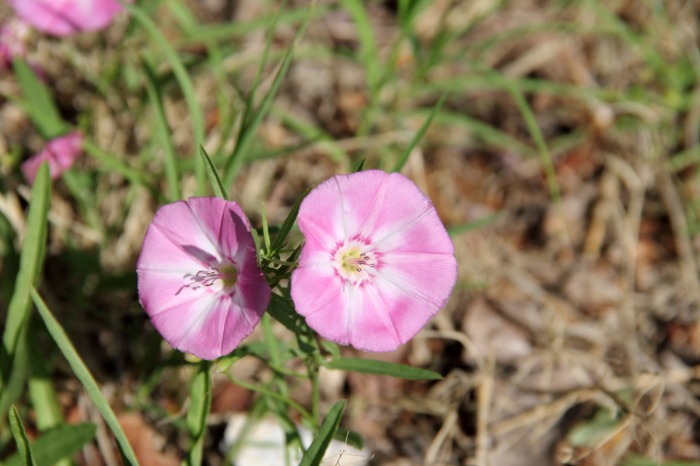 I am a perennial herb with glabrous or pubescent leaf blades that is ovate-oblong to ovate, about 1.5 to 5 cm long and 1 to 4cm wide. I mainly reproduce by seeding.